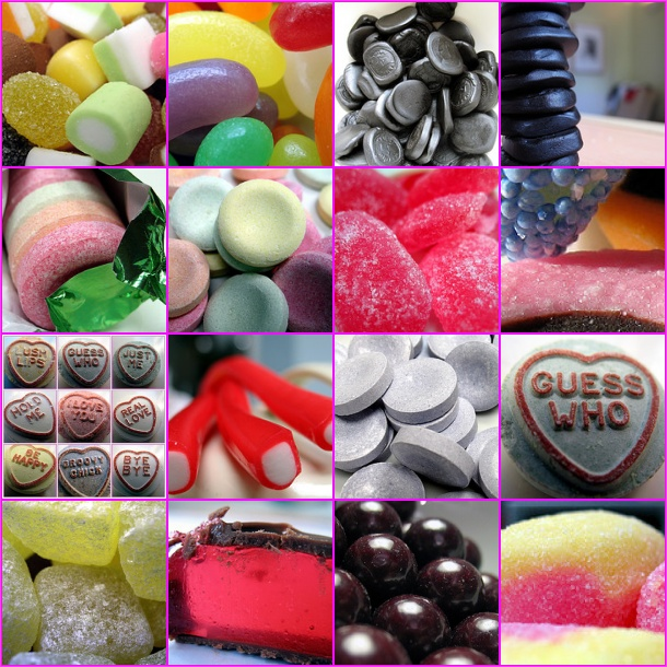 1. Dolly Mixtures, 2. Jelly beans, 3. Pontefract cakes, 4. A tower of Pontefract cakes, 5. Refreshers 5, 6. Refreshers 4, 7. Sarsaparilla drops, 8. Liquorice allsorts in your face, 9. My loveheart creation, 10. Sweets, 11. Giant parma violets, 12. Guess who, 13. Pineapple chunks, 14. Full of East Lancashire Promise.., 15. Aniseed balls, 16. Rhubarb and Custard